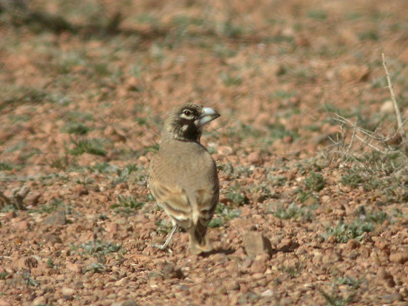 Thick-billed Lark, Tagdilt trail, Morocco, 16th March 2004